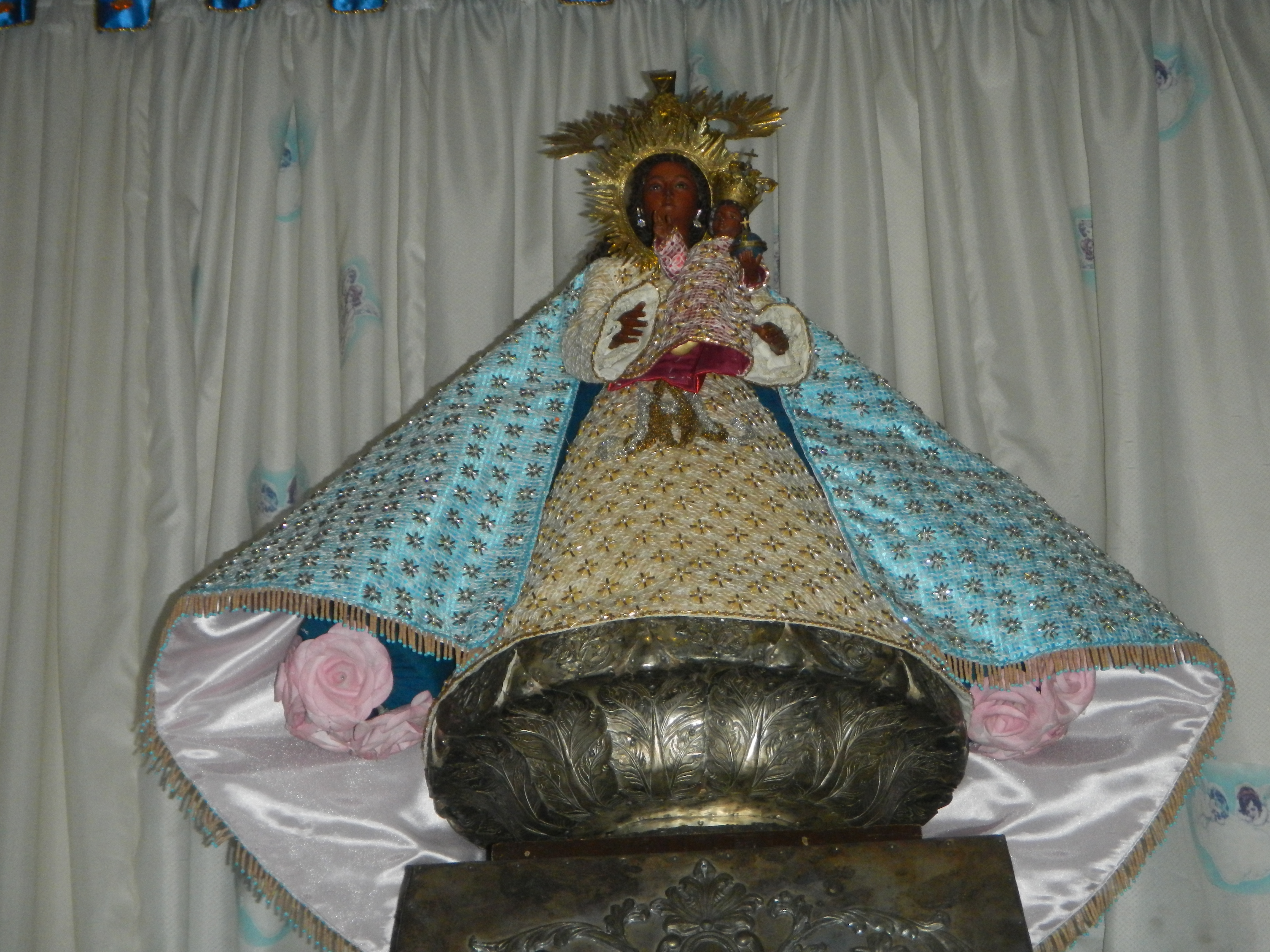 Parañaque Cathedral[1]St. Andrew's Cathedral, officially known as The Cathedral Parish of St. Andrew, is considered one of the oldest churches in the Philippines. It was established in 1580 by Spanish Augustinian friars.The church is the seat of the Roman Catholic Diocese of Parañaque[2], the local church that comprises Parañaque City, Muntinlupa City, and Las Piñas City. ([3]Roman Catholic Archdiocese of Manila). Parañaque[4] The City of Parañaque Andrew the Apostle[5] (Greek: Ἀνδρέας, Andreas; from the early 1st century – mid to late 1st century AD; known by some as Saint Andrew), called in the Orthodox tradition Prōtoklētos, or the First-called, is a Christian Apostle and the brother of Saint Peter. Our Lady of Good Success[6] also called as Our Lady of Good Success (Spanish: Nuestra Señora del Buen Suceso; Filipino: Ina ng Mabubuting Pangyayari) is one of the titles of Blessed Virgin Mary. This title is shared among numerous images around the world — a number of images in Spain, one in Quito, Ecuador, and one in Parañaque City, Philippines. It is claimed that Quito's image had produced an apparition - to Mother Mariana de Jésus Torres.[7] Diocesan Shrine & Patroness of Parañaque City Last August 10, 2012, celebrating her 387th enthronement anniversary and feast day, a decree from His Holiness Pope Benedict XVI, with approval of His Excellency, the Most Rev. Jesse E. Mercado, D.D., the Bishop of Diocese of Parañaque stating that the Cathedral Parish of St. Andrew will be the "Diocesan Shrine of Nuestra Señora del Buen Suceso", as delivered by Rev. Fr. Carmelo Estores, after the greeting of the Solemn High Mass. Last September 8, 2012, on her 12th canonical coronation anniversary, the Diocese of Parañaque declared Nuestra Señora del Buen Suceso as the official Patroness of the City of Parañaque. The Mass was attended by Parañaque City government officials and some lay people.